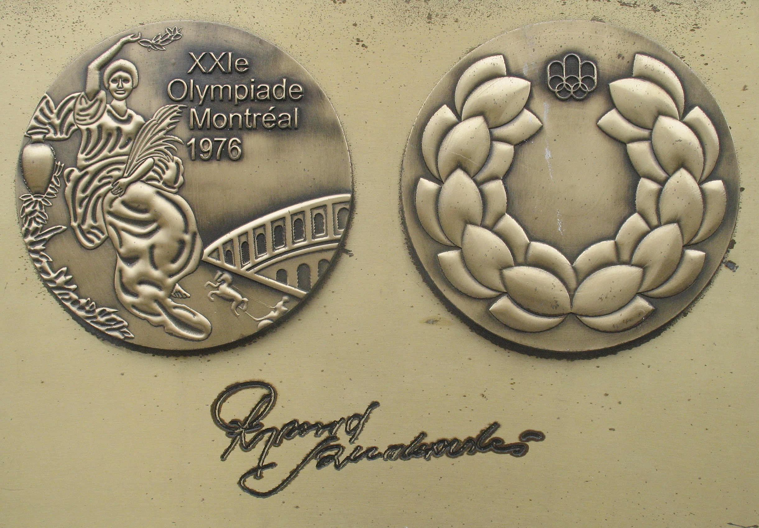 Ryszard Szurkowski medal & autograph in Avenue of Sport Stars Dziwnów